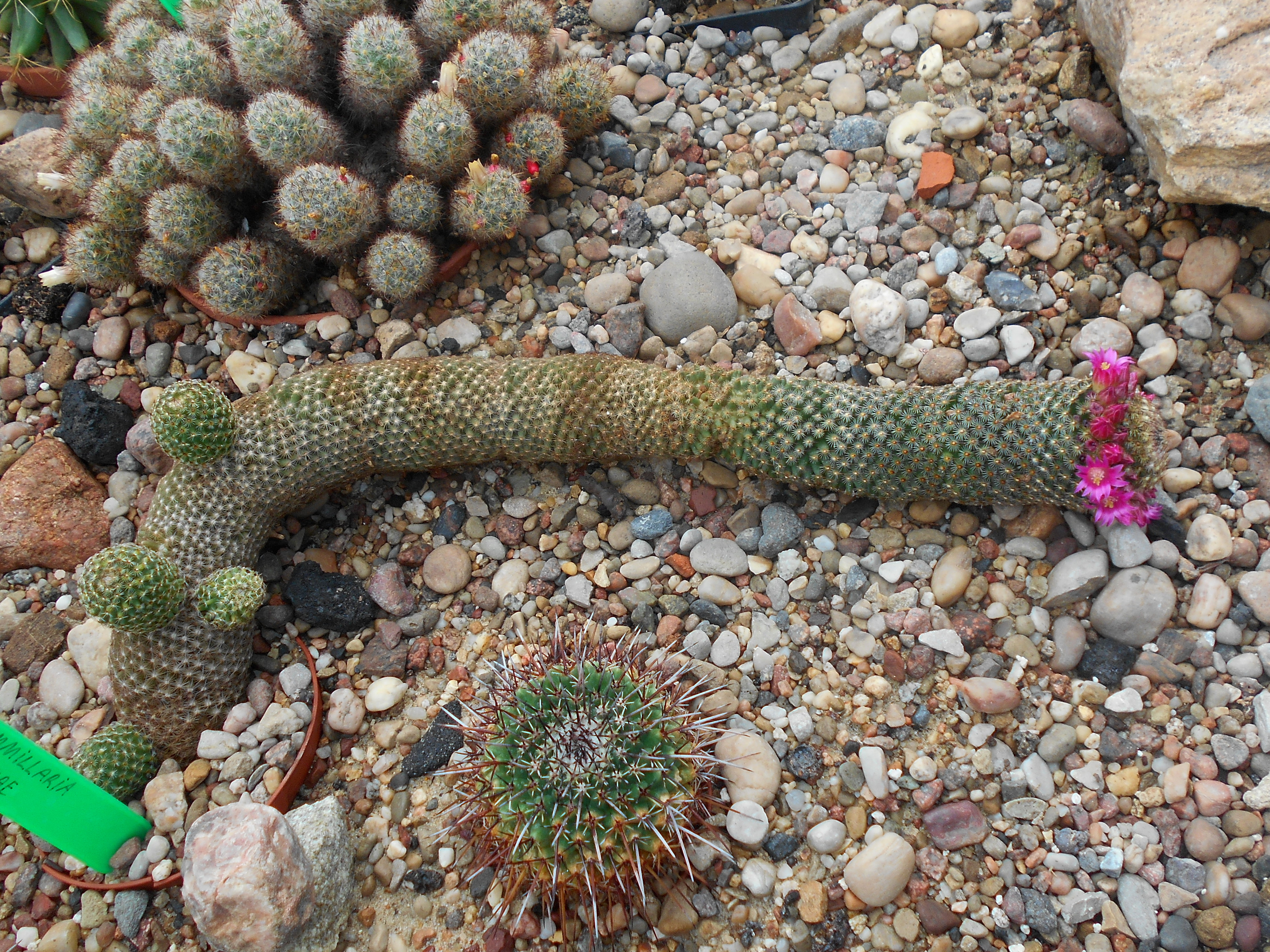 Mammillaria matudae, UMCS Botanical Garden in Lublin, Poland.